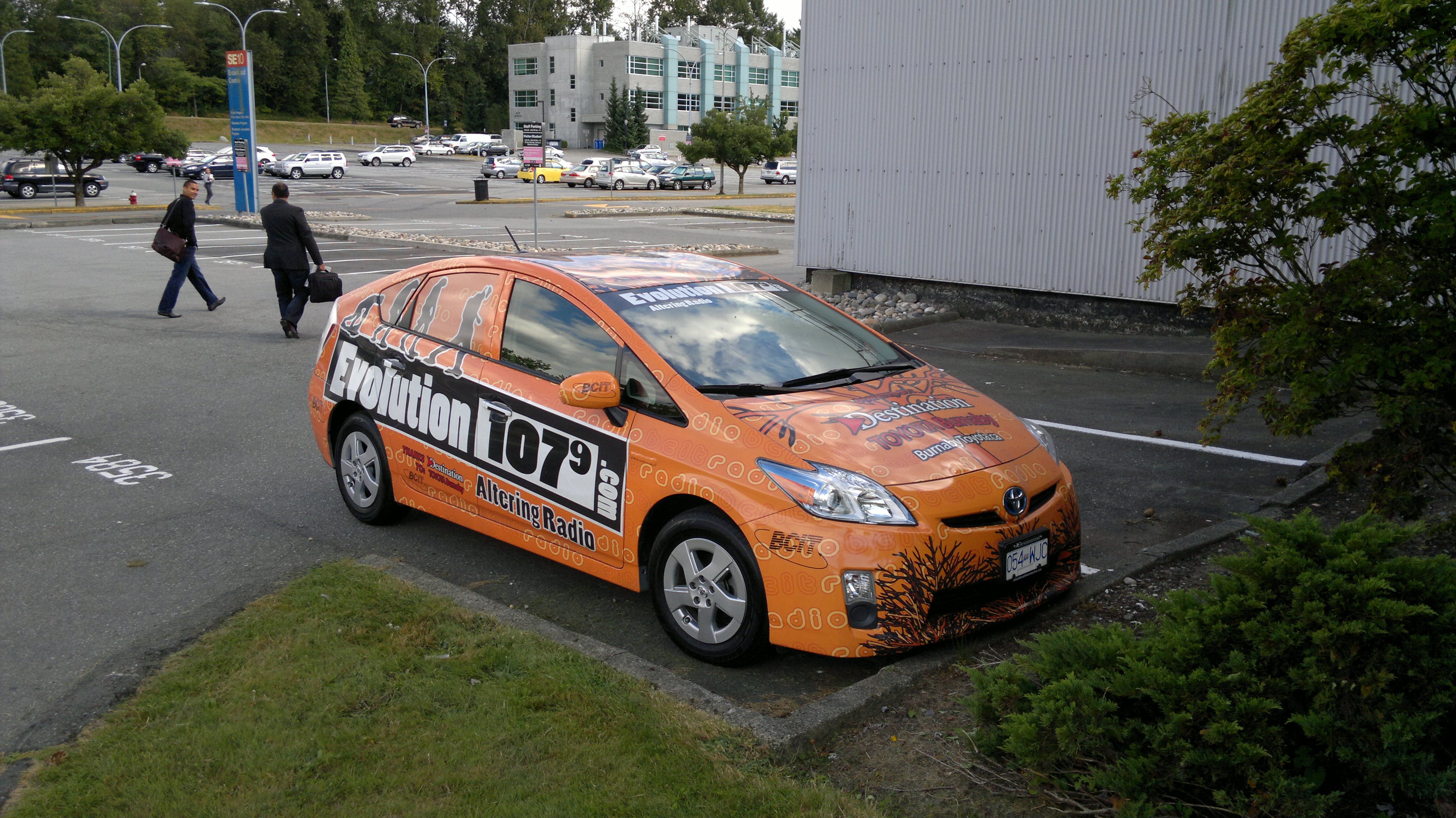 British Columbia Institute of Technology (BCIT) Evolution 107.9 vehicle.